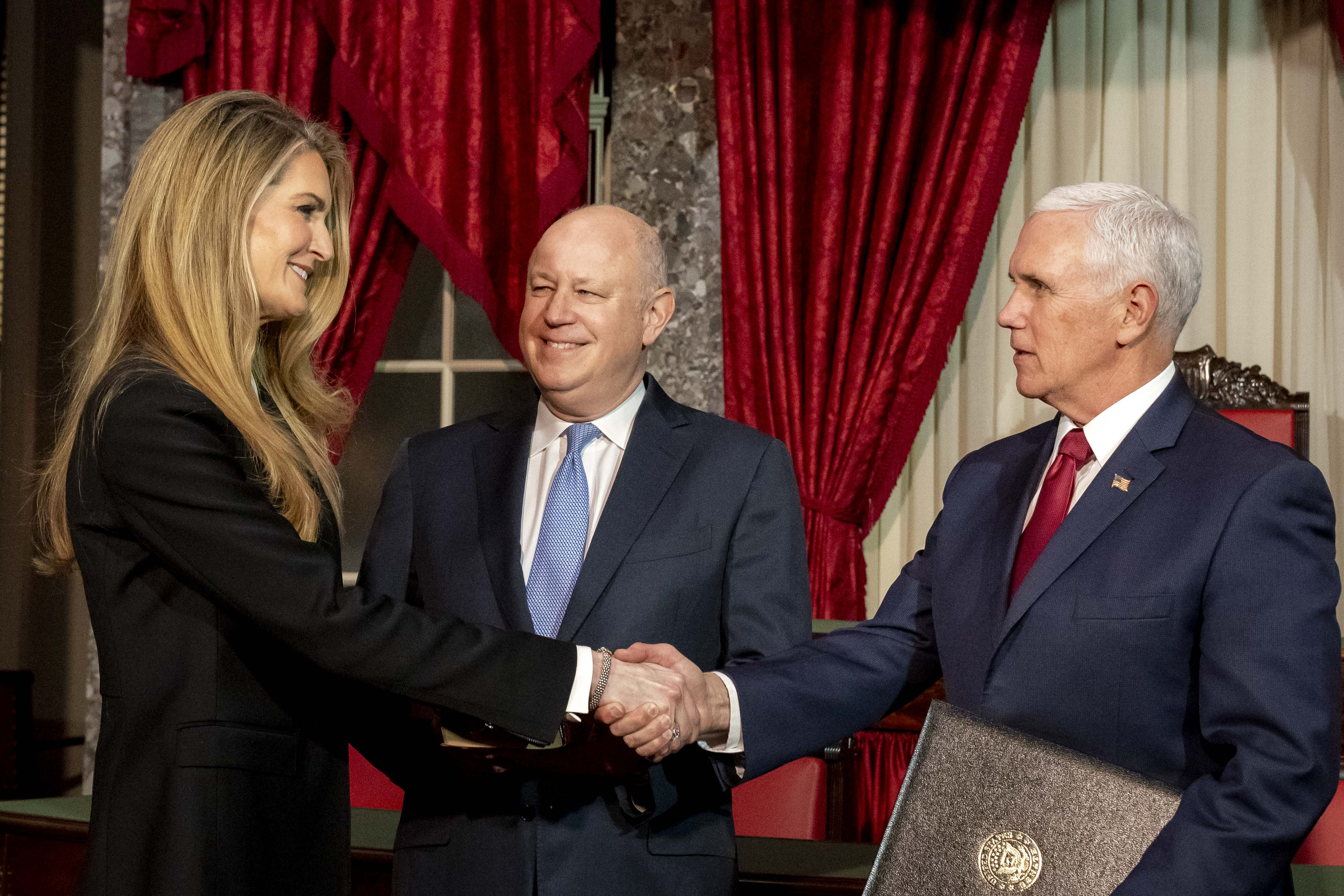 Vice President Mike Pence attends the ceremonial swearing in of U.S. Senator Kelly Loeffler Monday, Jan. 6, 2020, at the U.S. Capitol, in Washington, D.C.(Official White House Photo by D. Myles Cullen)